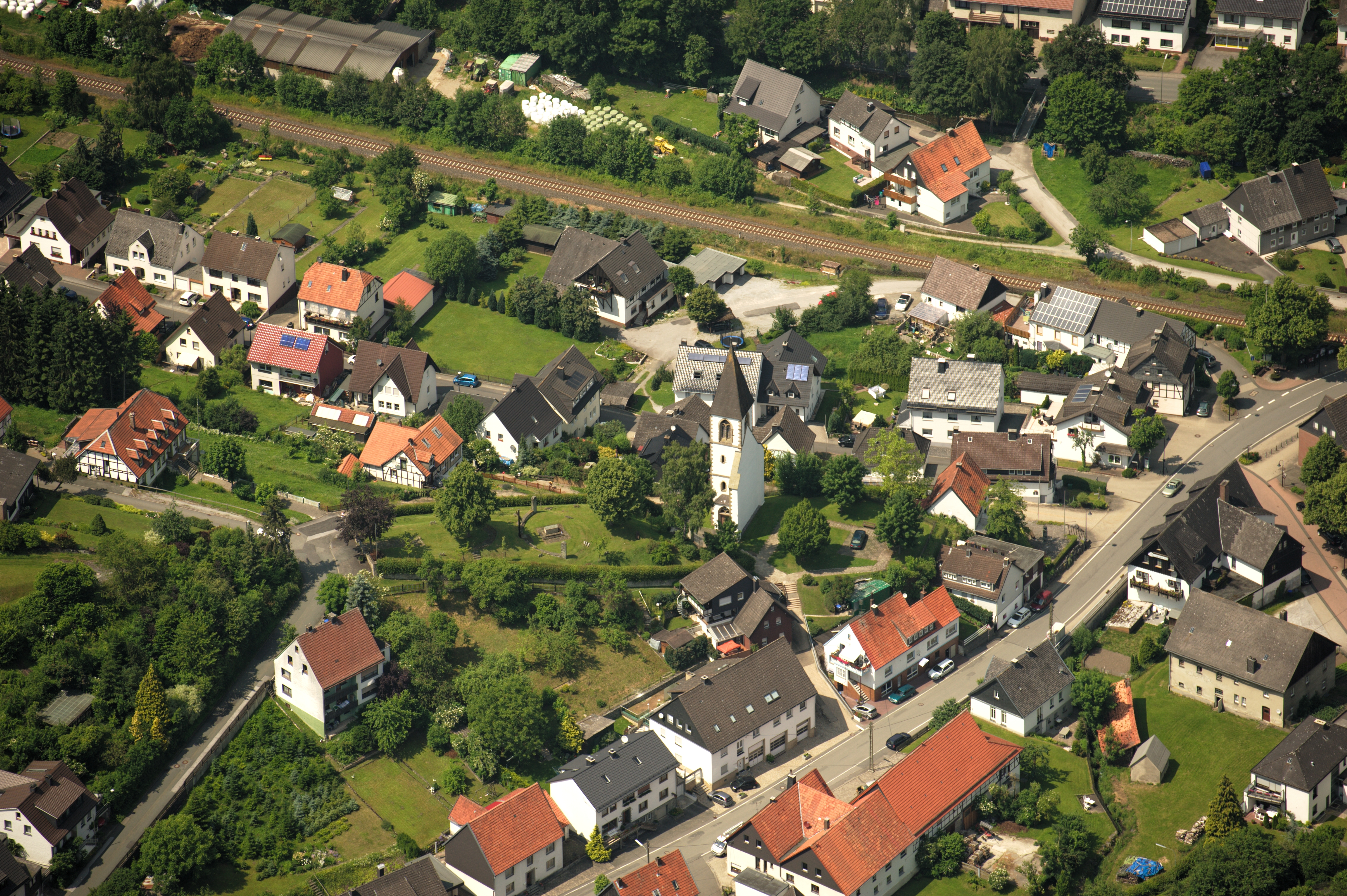 Fotoflug Sauerland-Ost: Zentrum von Brilon-Messinghausen; in der Mitte der Turm der alten Kirche. The making of this document was supported by the Community-Budget of Wikimedia Germany.